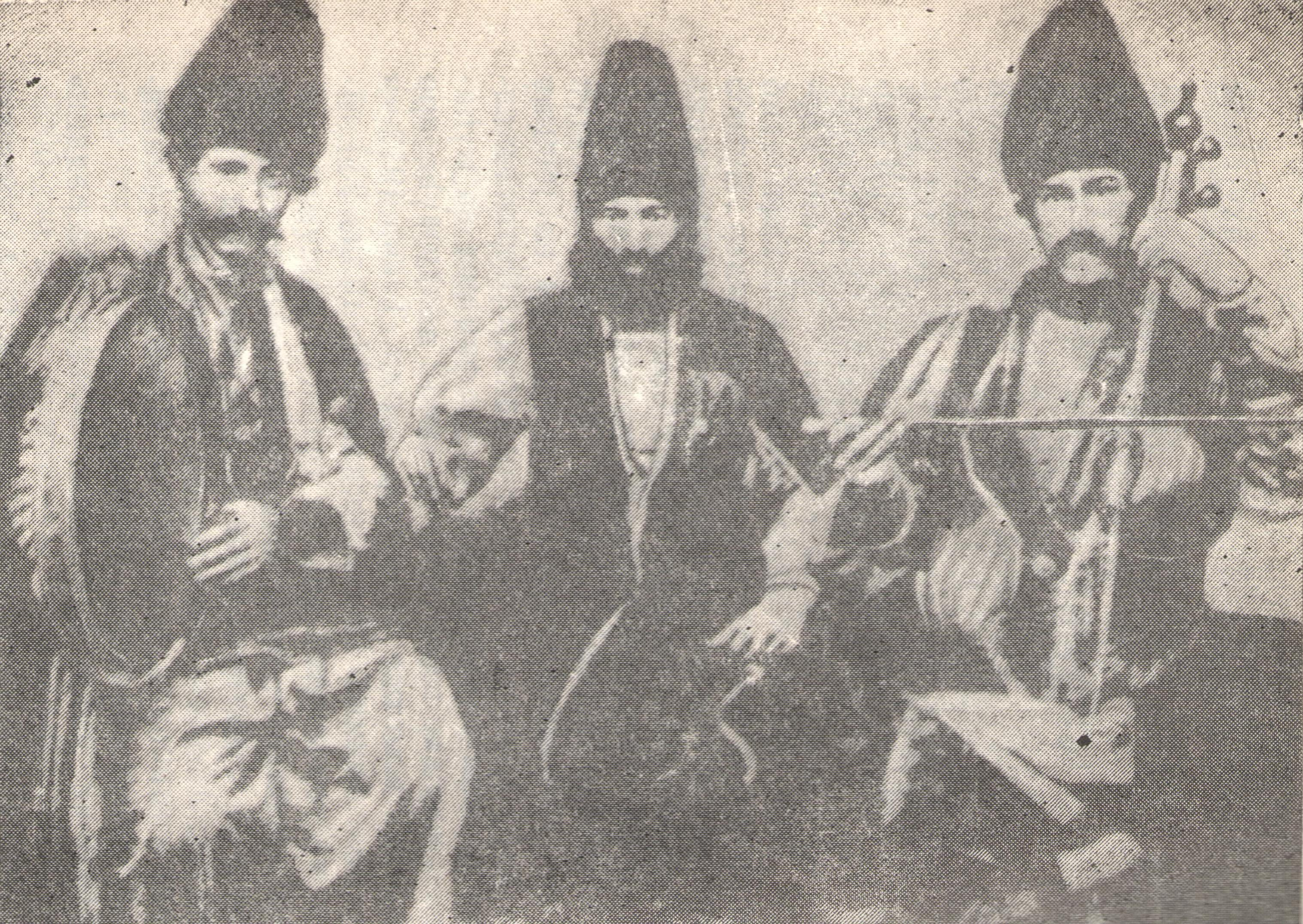 Azerbaijani singer Sattar and his ansamble